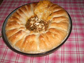 pie with vegetables